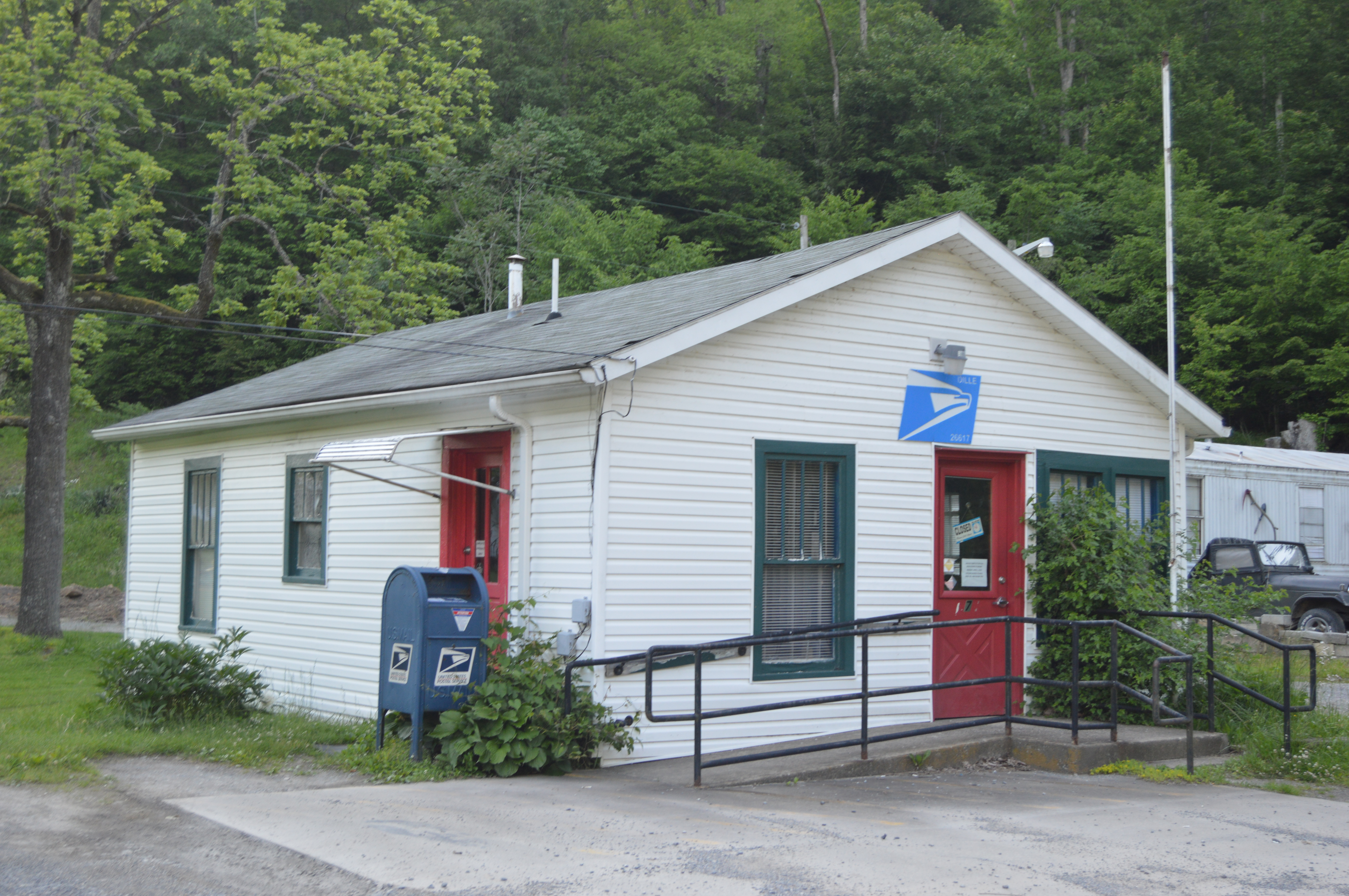 Front and southern side of the Dille post office, located at 7078 Widen-Dille Road at Dille in Clay County, West Virginia, United States.